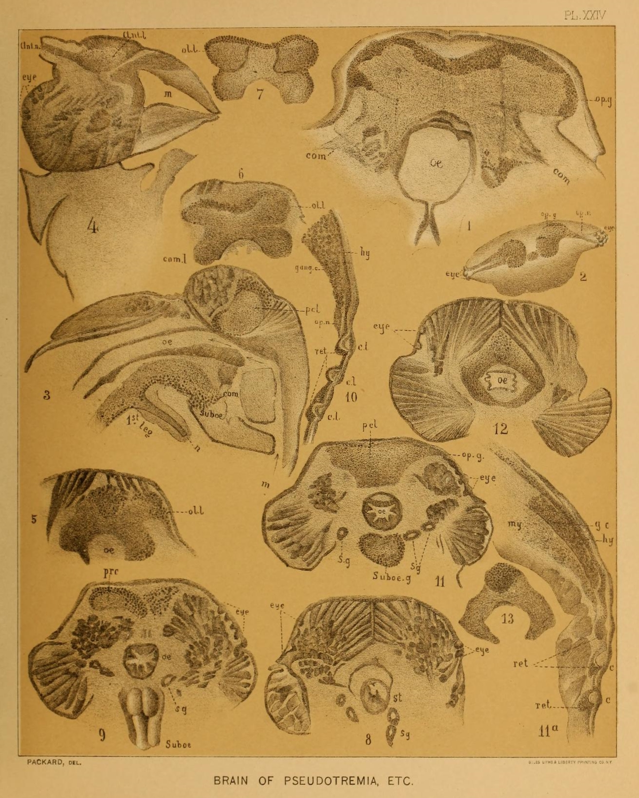 Plate XIV